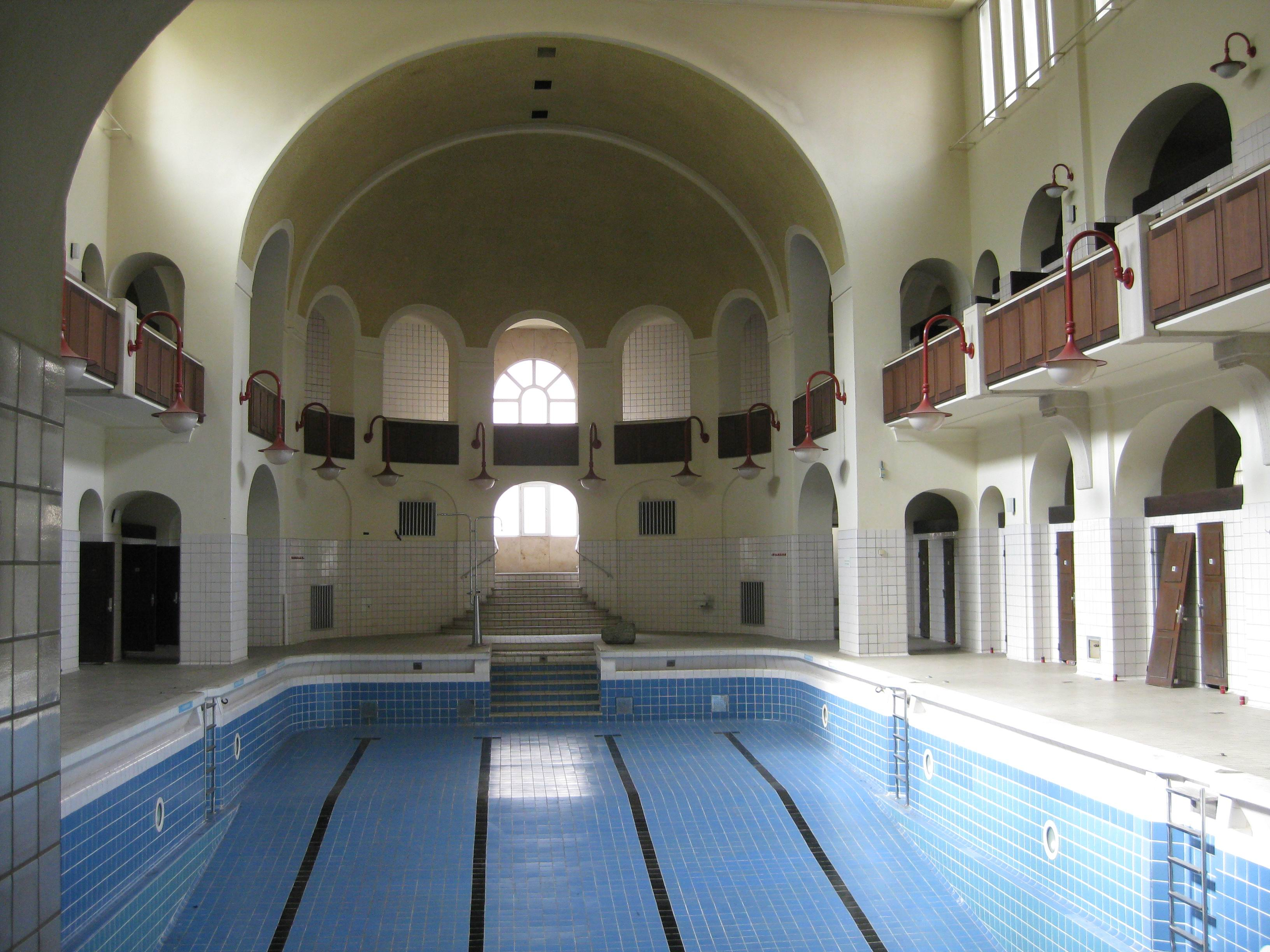 Foto of swimming hall of Volksbad in Nürnberg